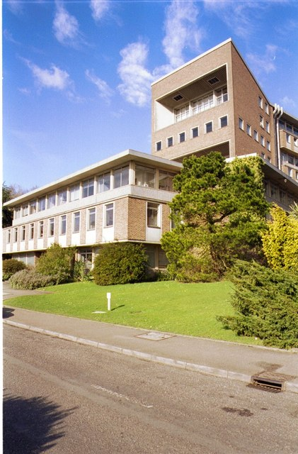 Laver Building, University of Exeter. Exeter's fabulous campus straddles 4 grid squares. In my day this was Maths and Geology, though the latter has since gone west (to Camborne School of mines to be precise)